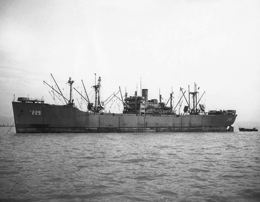 USS Las Vegas Victory (AK-229) at anchor, probably in Puget Sound at the end of 1945 or at San Francisco after arriving there in February 1946. Her armament was removed soon after the end of the war, probably during the Puget Sound stop.